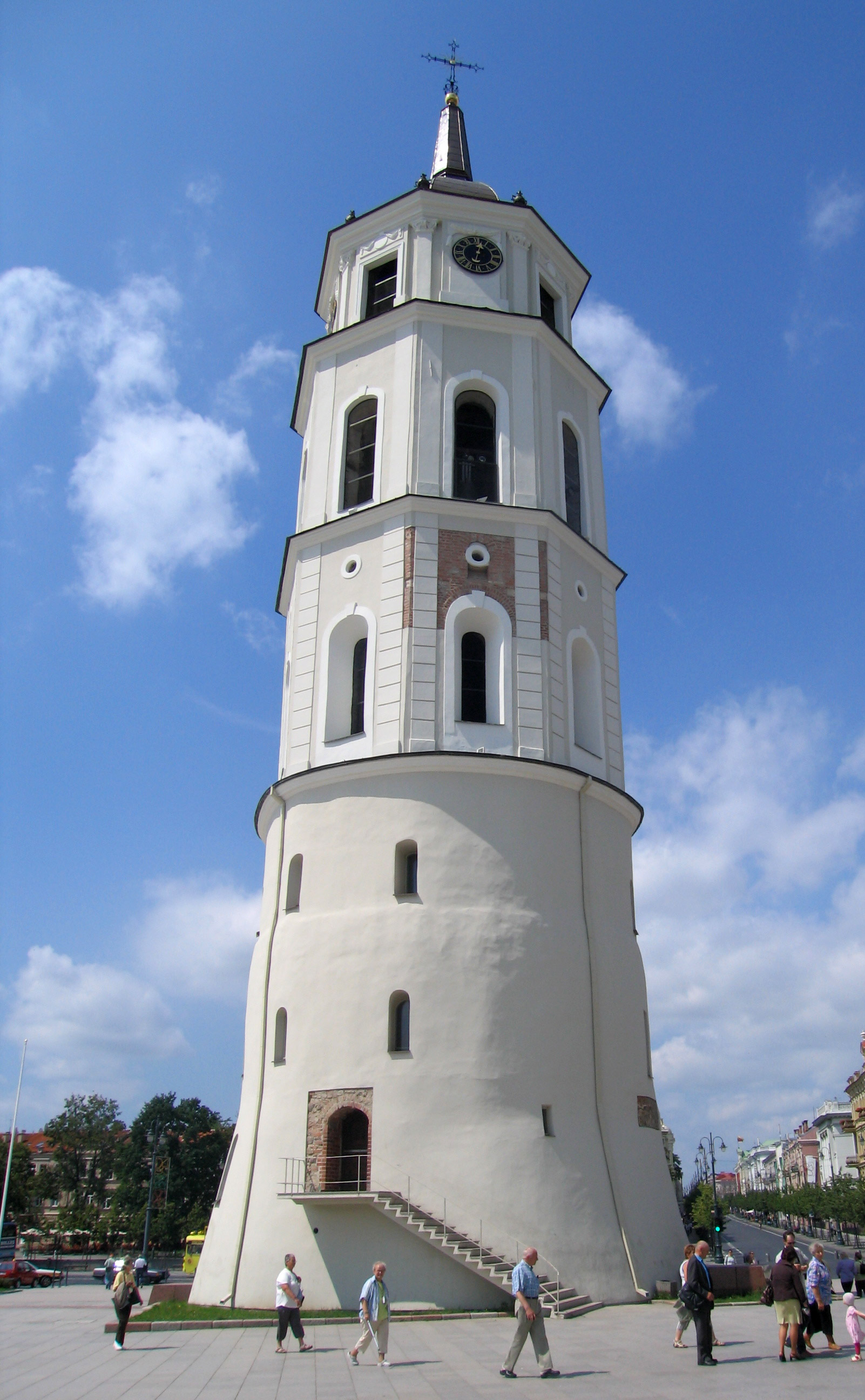 Tower in Cathetral square 2007 July 15